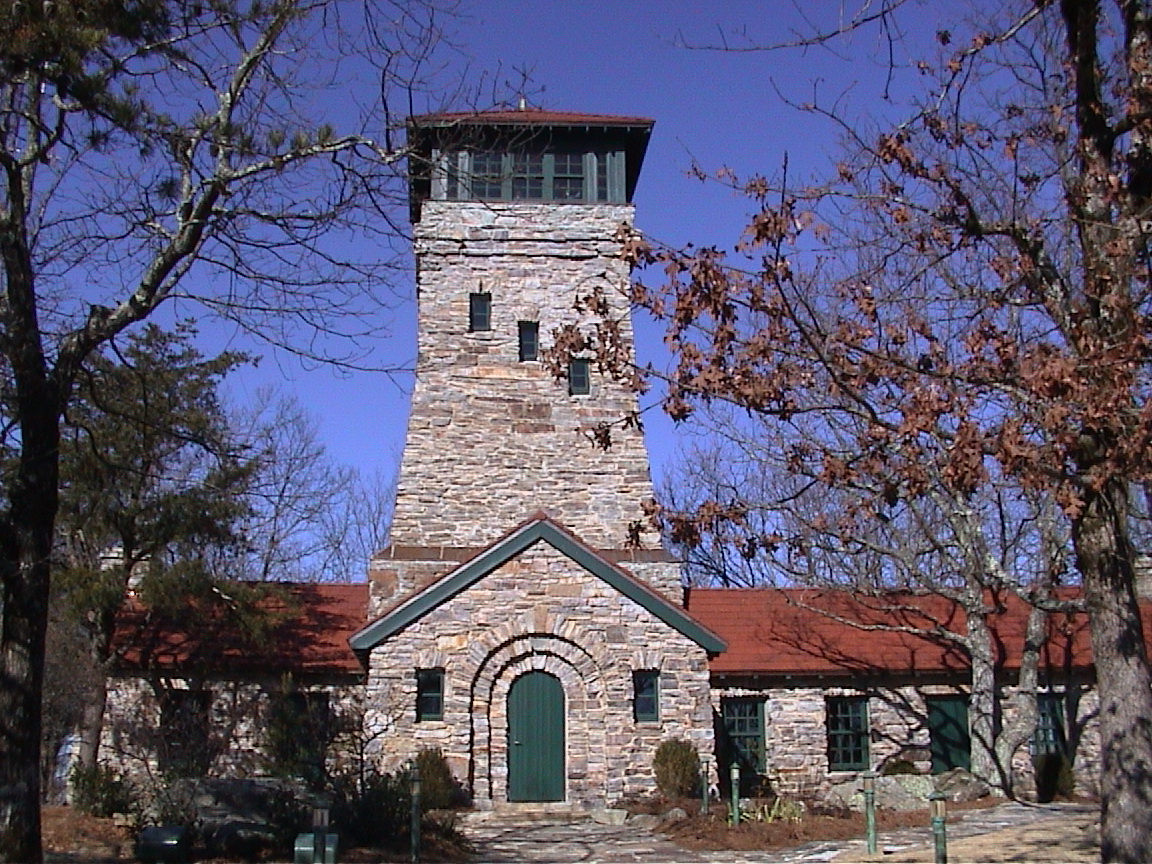 Picture of the tower and building at Cheaha Mountain, Alabama's highest point.